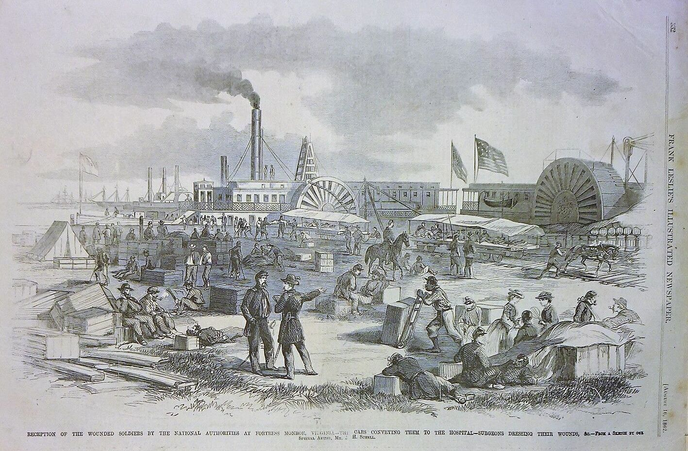 Reception of the wounded soldiers by the national authorities at Fortress Monroe, Va. Library of Congress, Illus. in: Frank Leslie's illustrated newspaper, 1862 Aug. 16, p. 332. TITLE: Reception of the wounded soldiers by the national authorities at Fortress Monroe, Va. - the cars conveying them to the hospital - surgeons dressing their wounds CALL NUMBER: Illus. in AP2.L52 1862 Case Y [P&P] REPRODUCTION NUMBER: LC-USZ62-90542 (b&w film copy neg.) No known restrictions on publication. MEDIUM: 1 print : wood engraving. CREATED/PUBLISHED: 1862. RELATED NAMES: Schell, J. H., artist. NOTES: After a sketch by J. H. Schell. Illus. in: Frank Leslie's illustrated newspaper, 1862 Aug. 16, p. 332. SUBJECTS: United States--History--Civil War, 1861-1865--Medical aspects. Military life--Union--Virginia--Fort Monroe--1860-1870. FORMAT: Periodical illustrations 1860-1870. Wood engravings 1860-1870. DIGITAL ID: (b&w film copy neg.) cph 3b36892 VIDEO FRAME ID: LCPP003B-36892 (from b&w film copy neg.) CARD #: 96516942